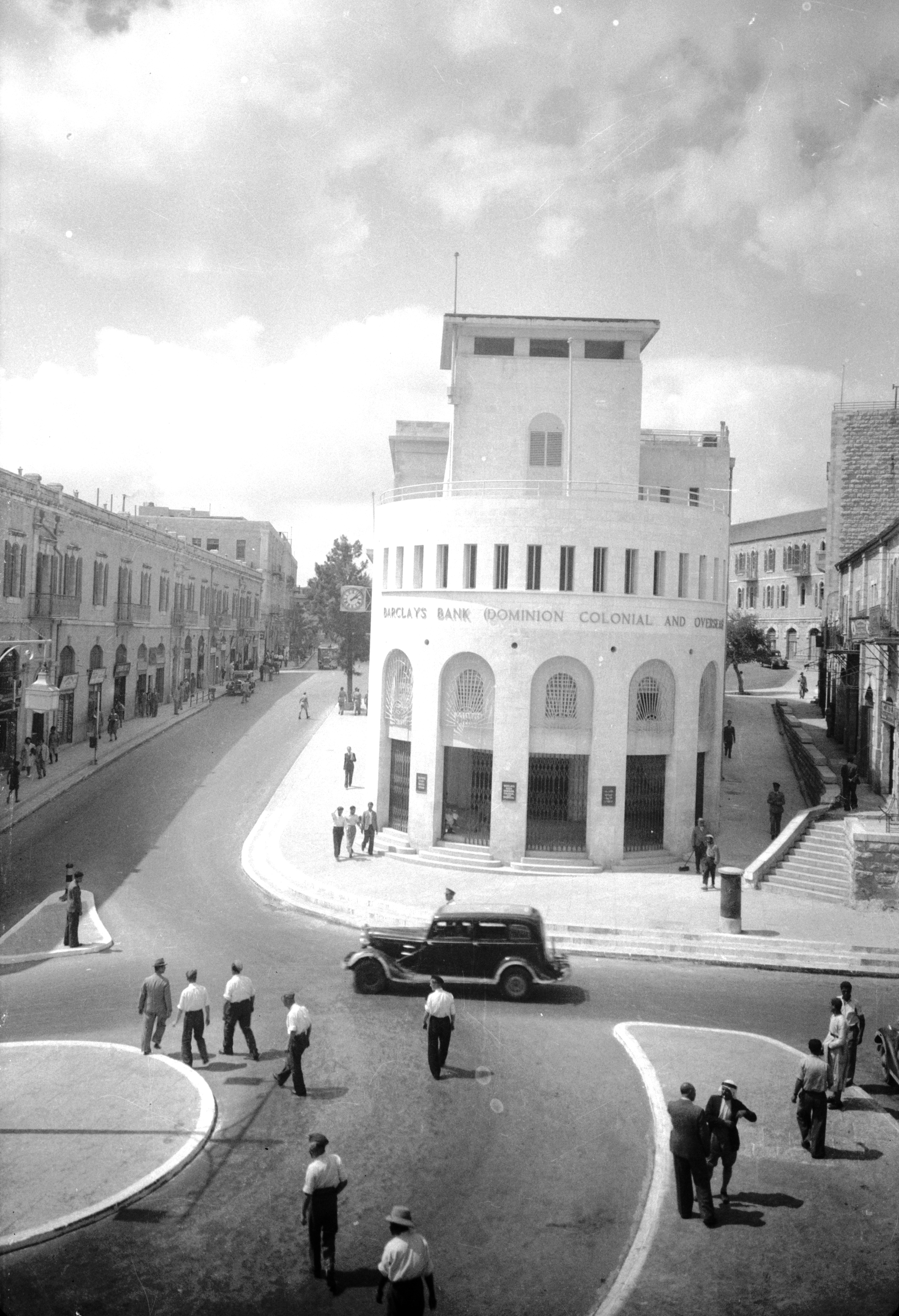 Barclay's Bank, Jerusalem, circa 1940. Original caption: "Jerusalem, new city"